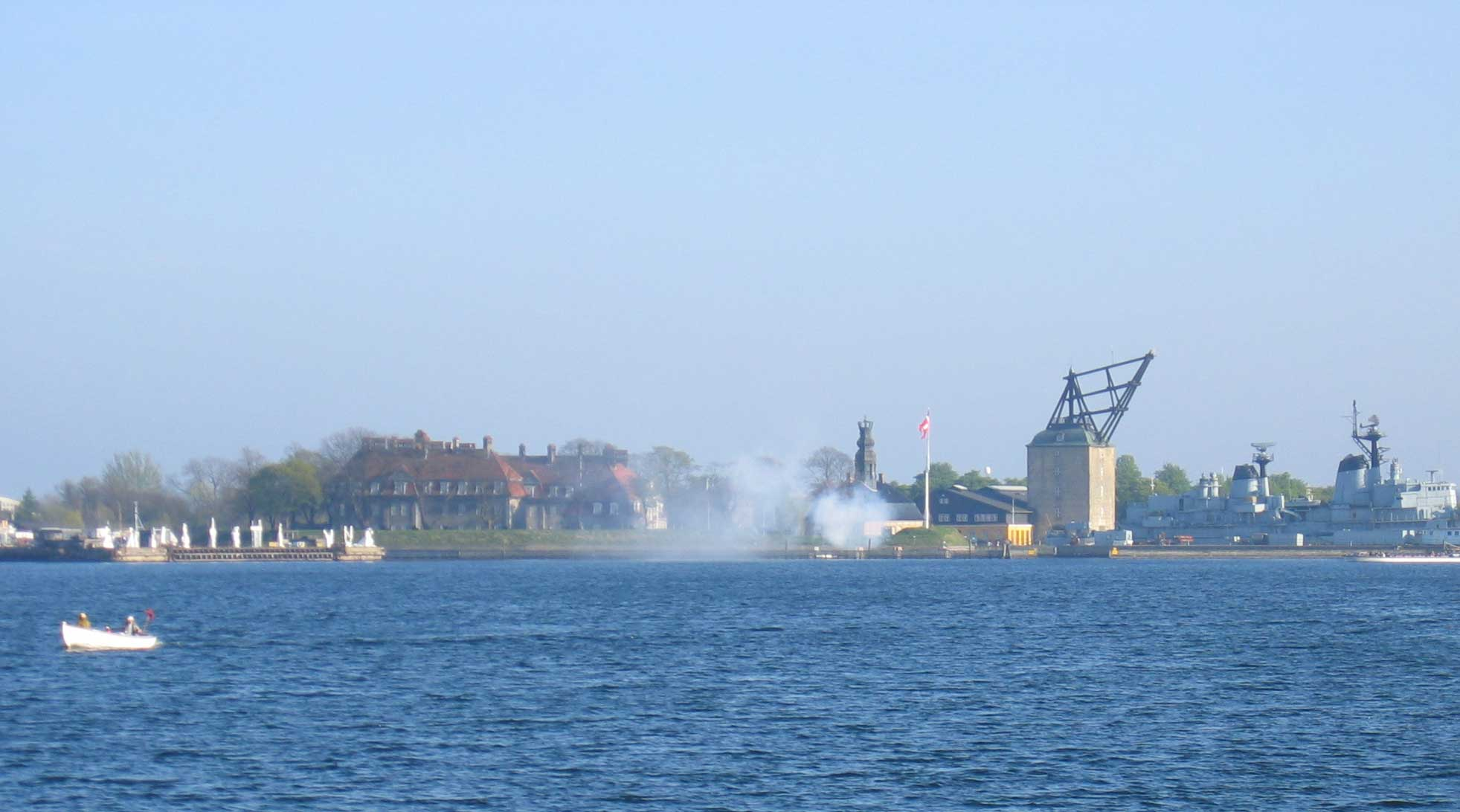 Christiani Sixti Batteri (Batteriet Sixtus) gives a 21 shot salute at the homecoming of Galathea 3